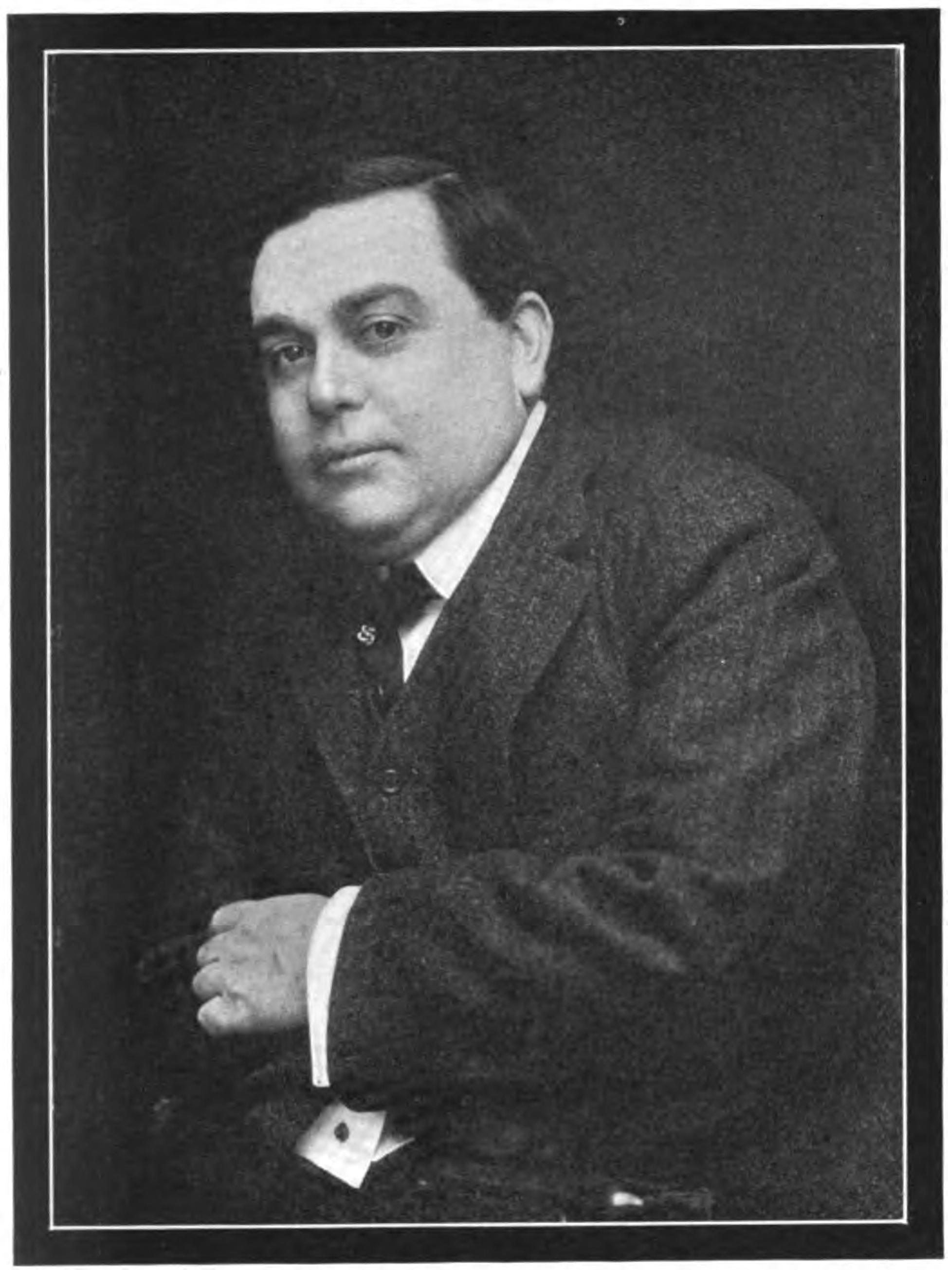 Edward Garvie in 1909